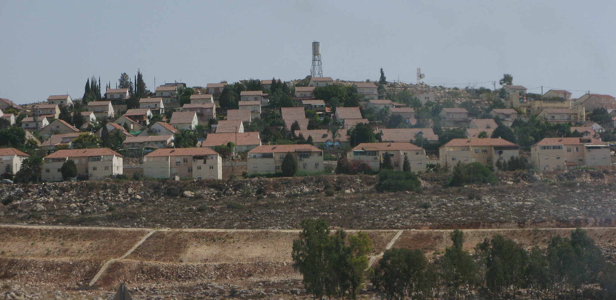 Ofarim from the road